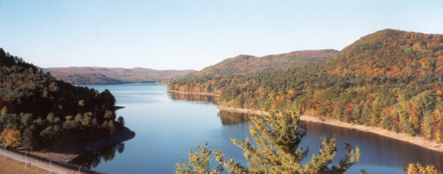 Photo by Duane Frasier. Photo may be used without permission.